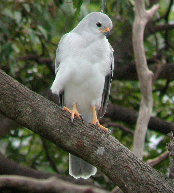 Grey Goshawk (Accipiter novaehollandiae) Dayboro, SE Queensland, Australia